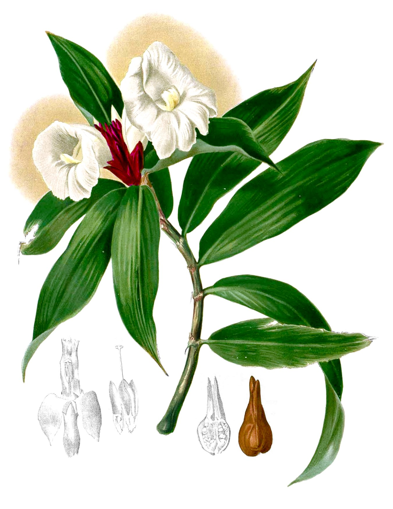 Plate from book